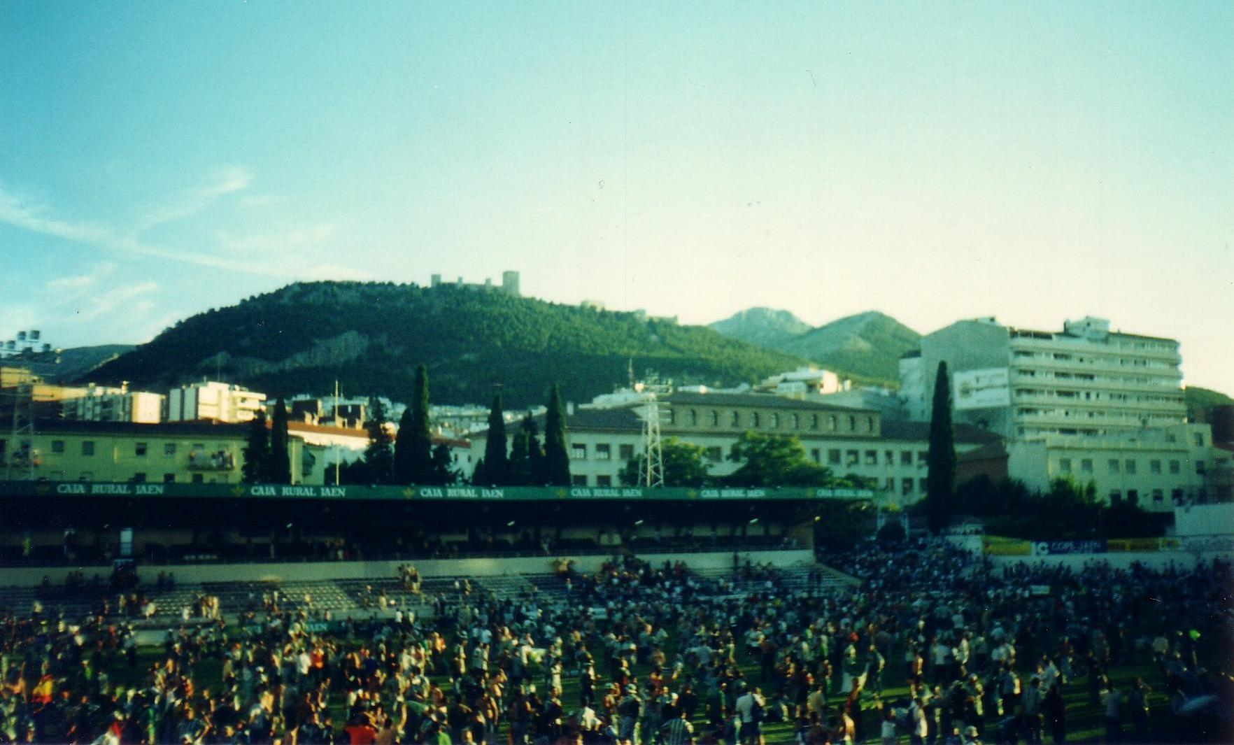 La Victoria Stadium, Jaén (Spain). Pitch invaded by Real Betis fans. Picture taken by Johnbojaen on 17th June 2001, after Real Jaén - Real Betis match.